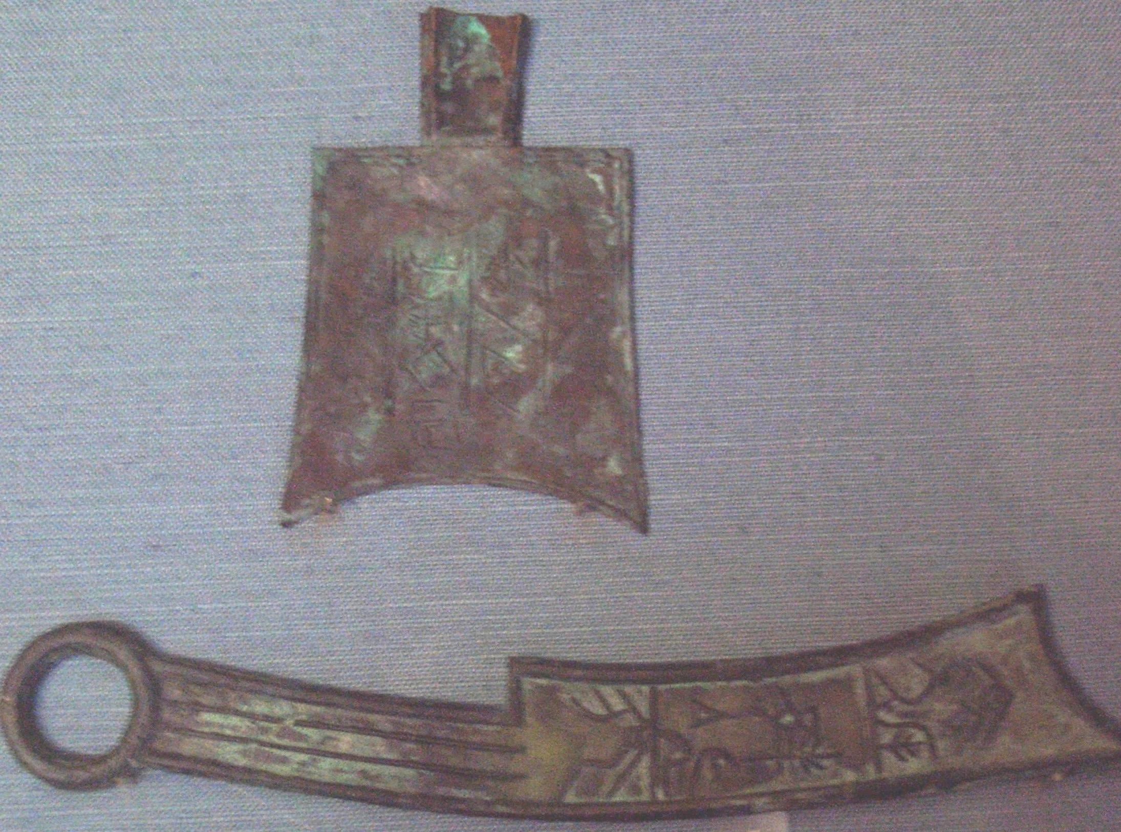 Chinese Knife and Spade Coins - reproductions.